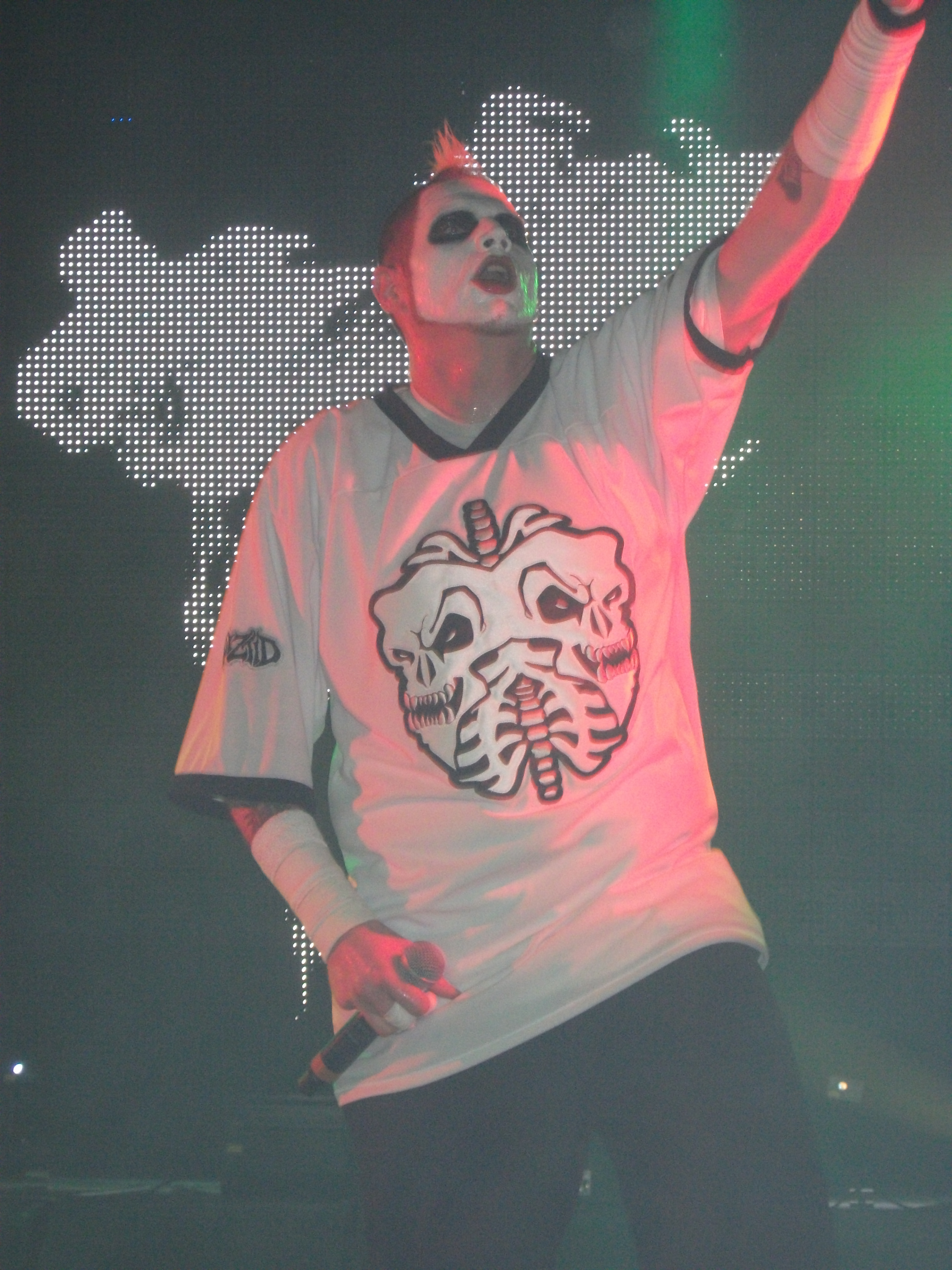 Jamie Madrox tearing it up on stage at the Abominationz Tour in Chesterfield, MI on April 27th, 2013.